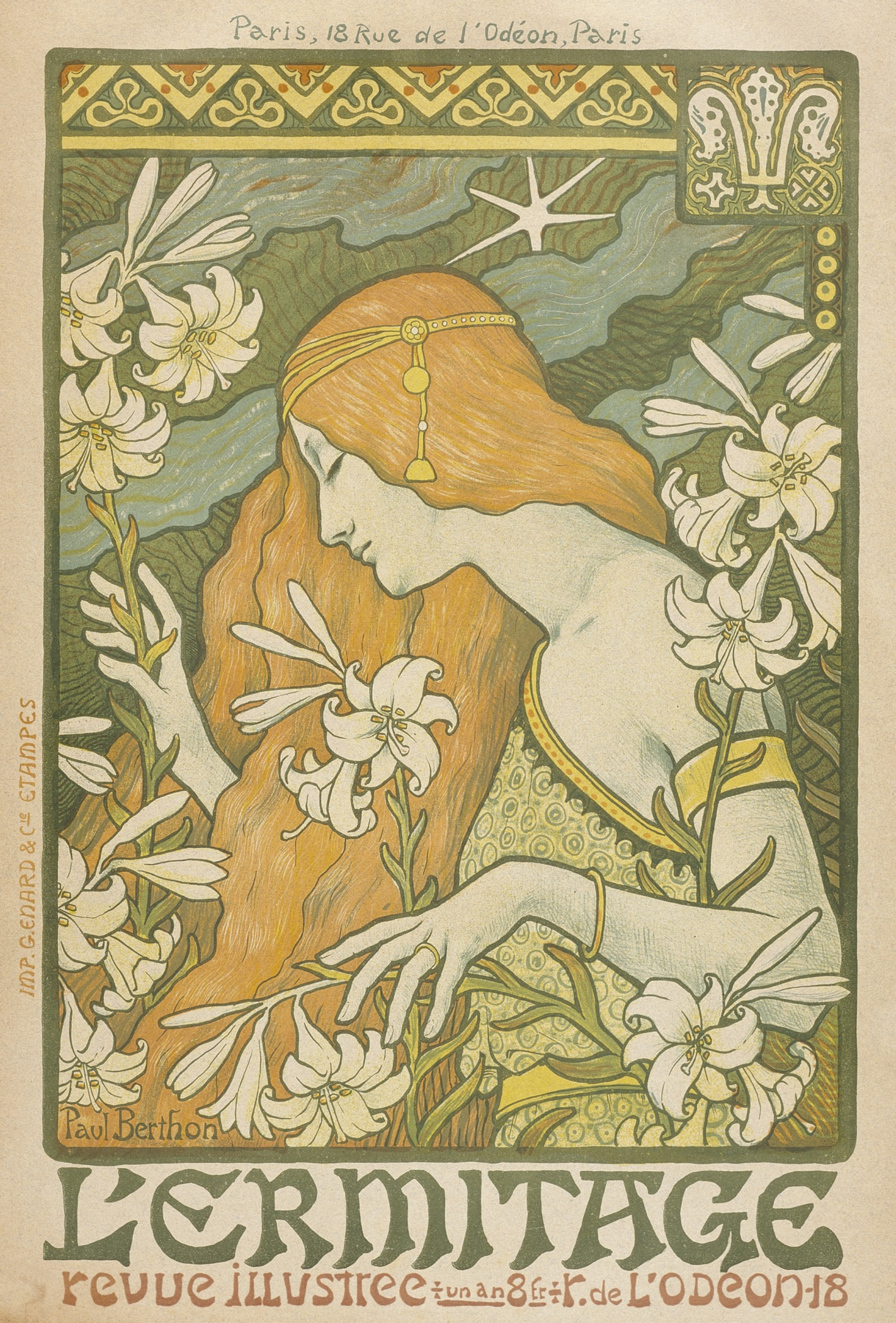 France, 1897 Prints; lithographs Lithograph in four colors: orange, yellow, olive, and blue green Kurt J. Wagner, M.D. and C. Kathleen Wagner Collection (M.87.294.2) Prints and Drawings